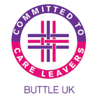 Logo